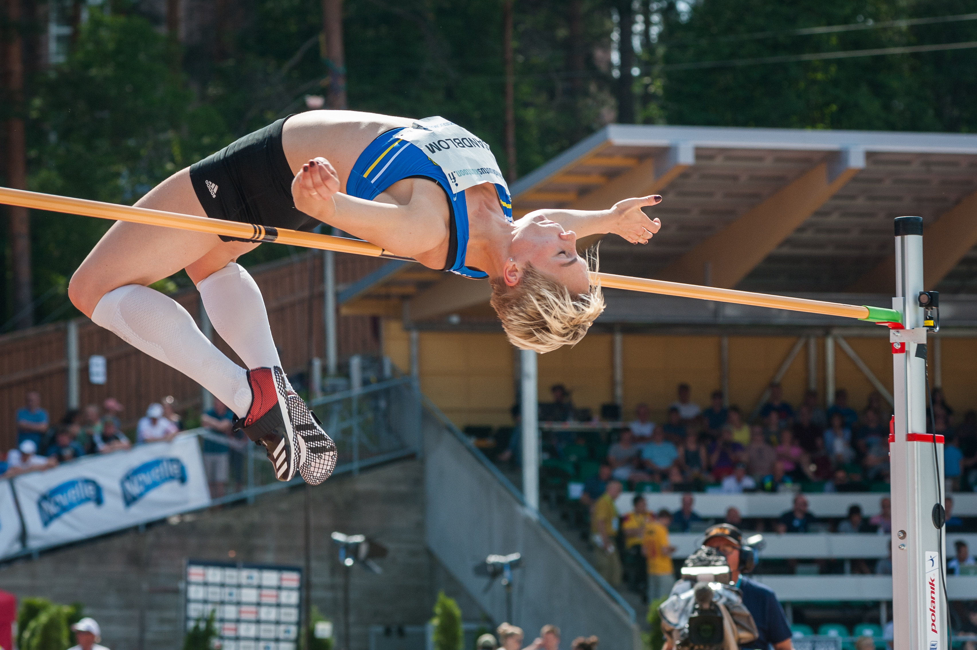 Women's high jump competition at the 2018 Kalevan Kisat, the Finnish championships in athletics, in Jyväskylä, Finland.